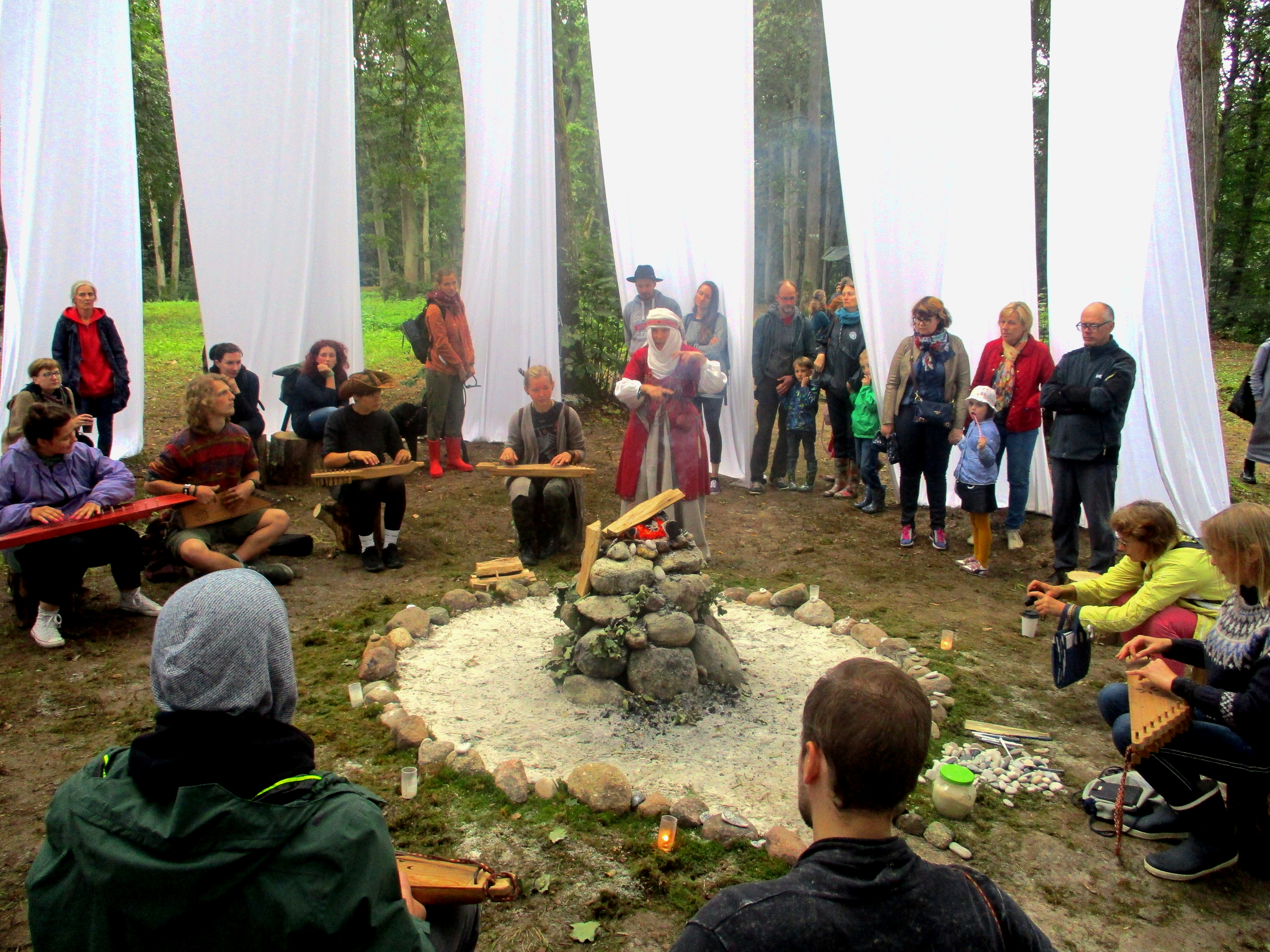 Lessons of playing kanklės with Daiva Šeškauskaitė-Skalsa at the Mėnuo Juodaragis XXI Altar.